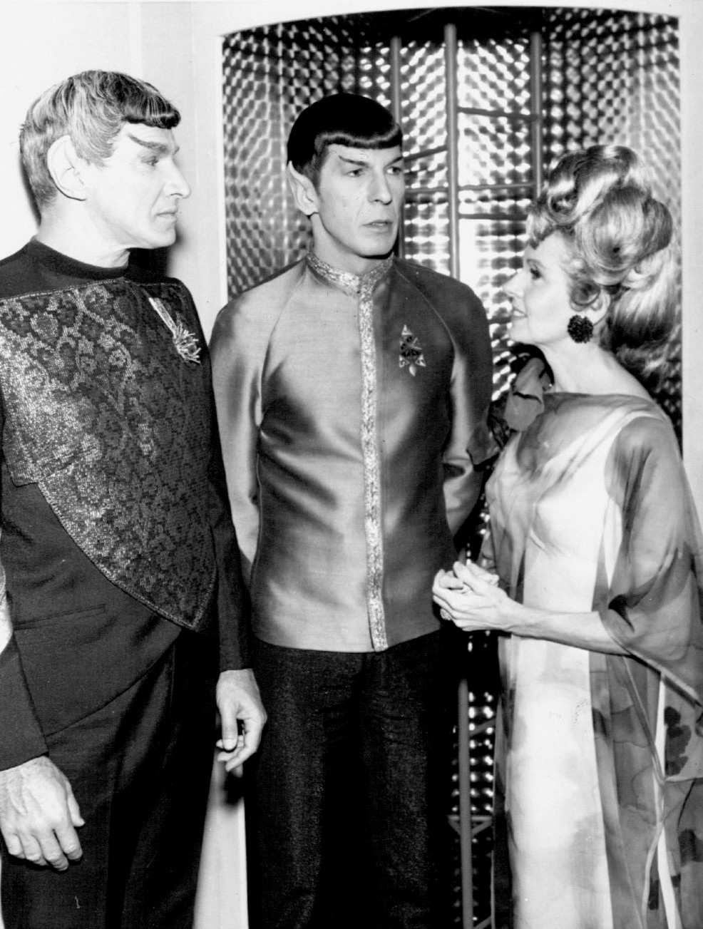 Photo of Mr. Spock with his parents. At left is his father, Sarek, a Vulcan (played by Mark Lenard) and at right, his human mother, Amanda (played by Jane Wyatt). His parents appeared in the episode Journey to Babel.